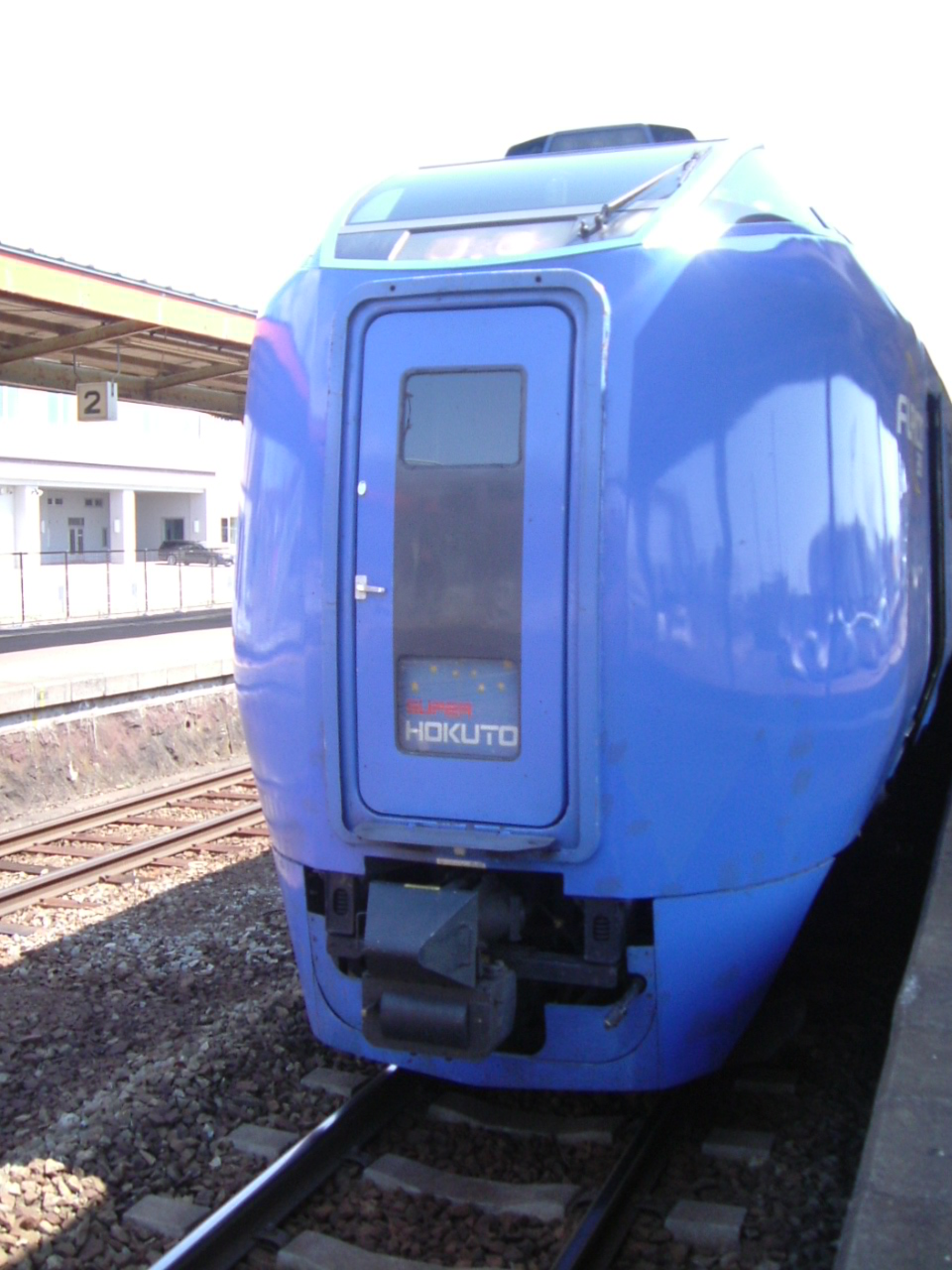 Limited express train Super Hokuto at Toya Station